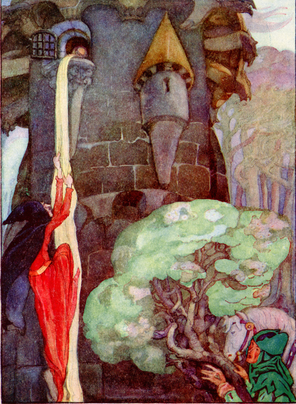 "Rapunzel, Let Down Your Hair" by Anne Anderson. And the witch climbed up...